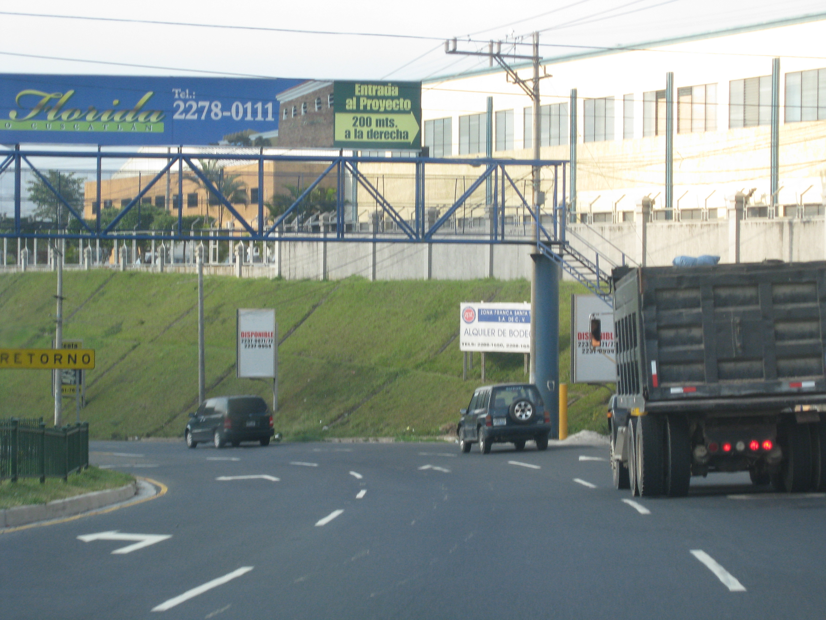 Freeway at San Salvador (2)